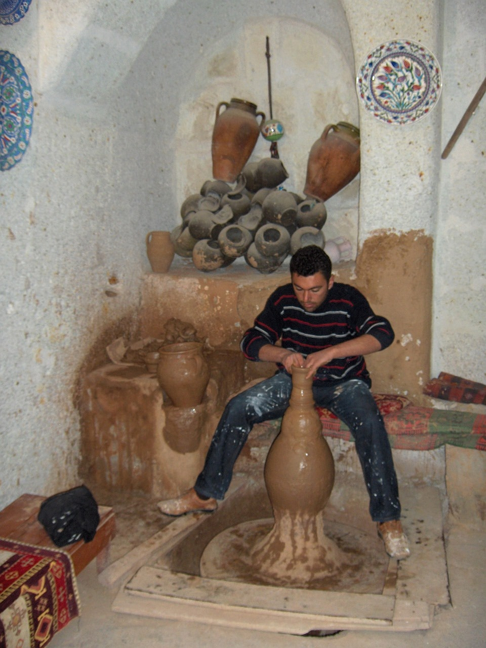 At the potter's kick wheel; pottery factory, Gülşehir, Cappadocia, Turkey